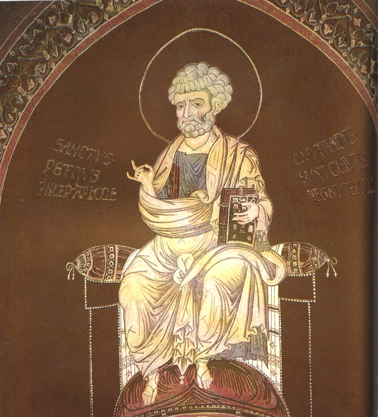 Apostle Peter - mosaic in Monreale Cathedral